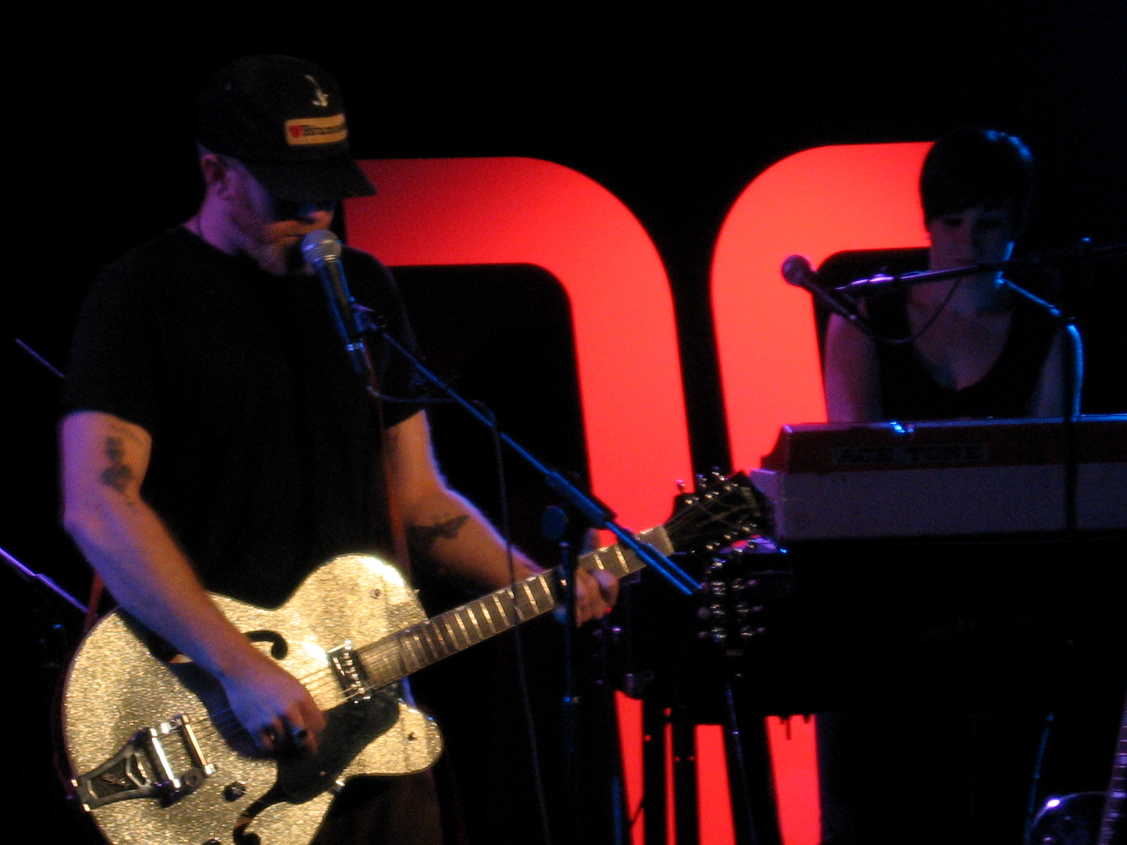 A picture of the members of the musical band Parker and Lily at the Castellón, Spain concert